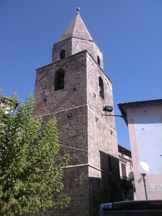 Longobucco. Tower of city